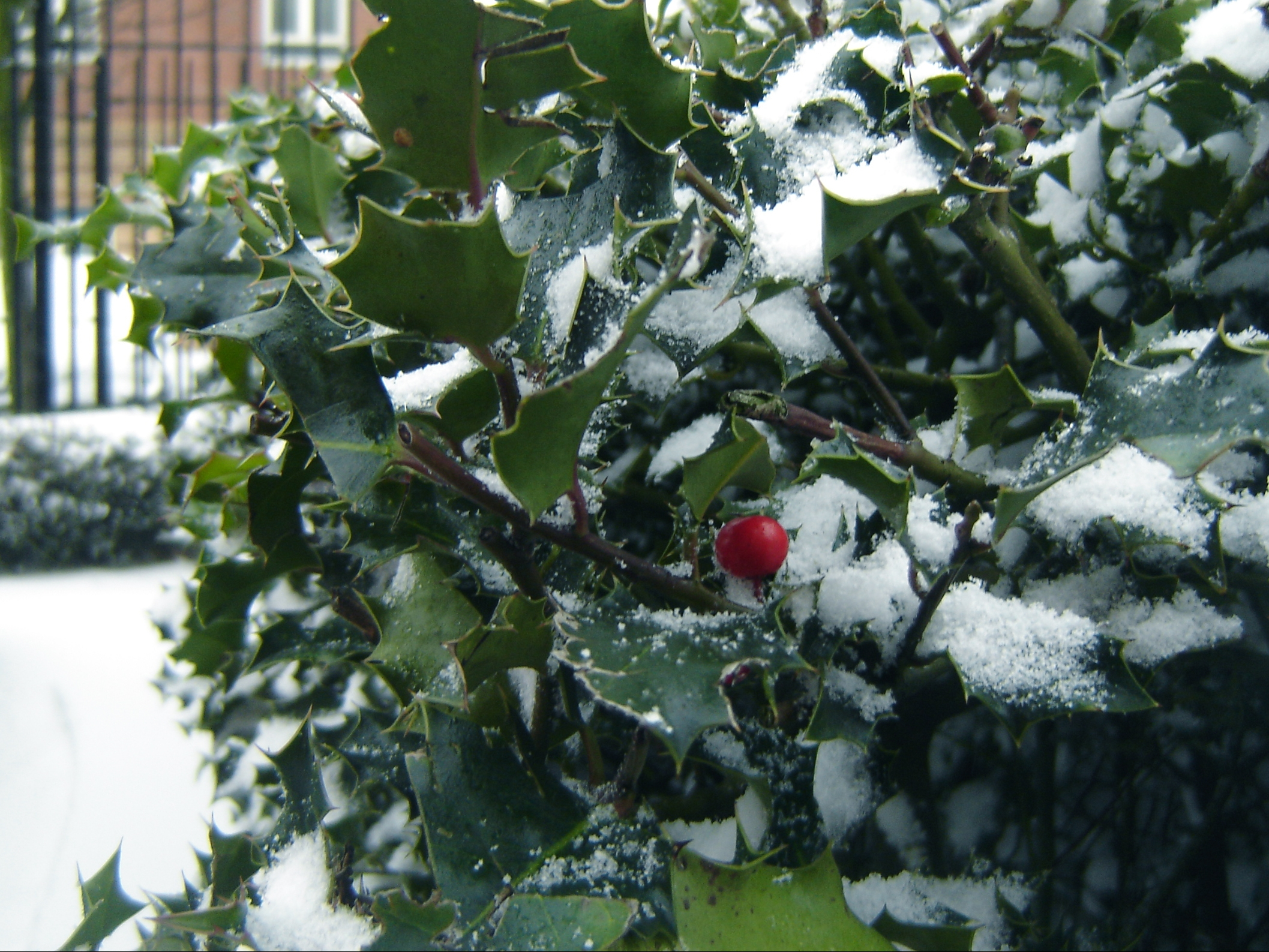 A holly bush with a lone red berry in winter